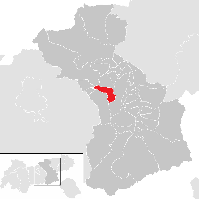 District Schwaz